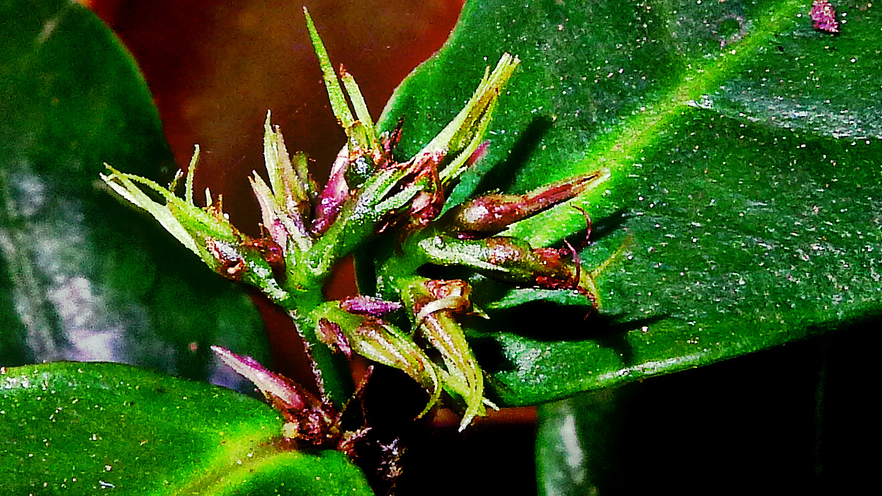 Herpetacanthus sp., Acanthaceae, Atlantic forest, northern littoral of Bahia, Brazil